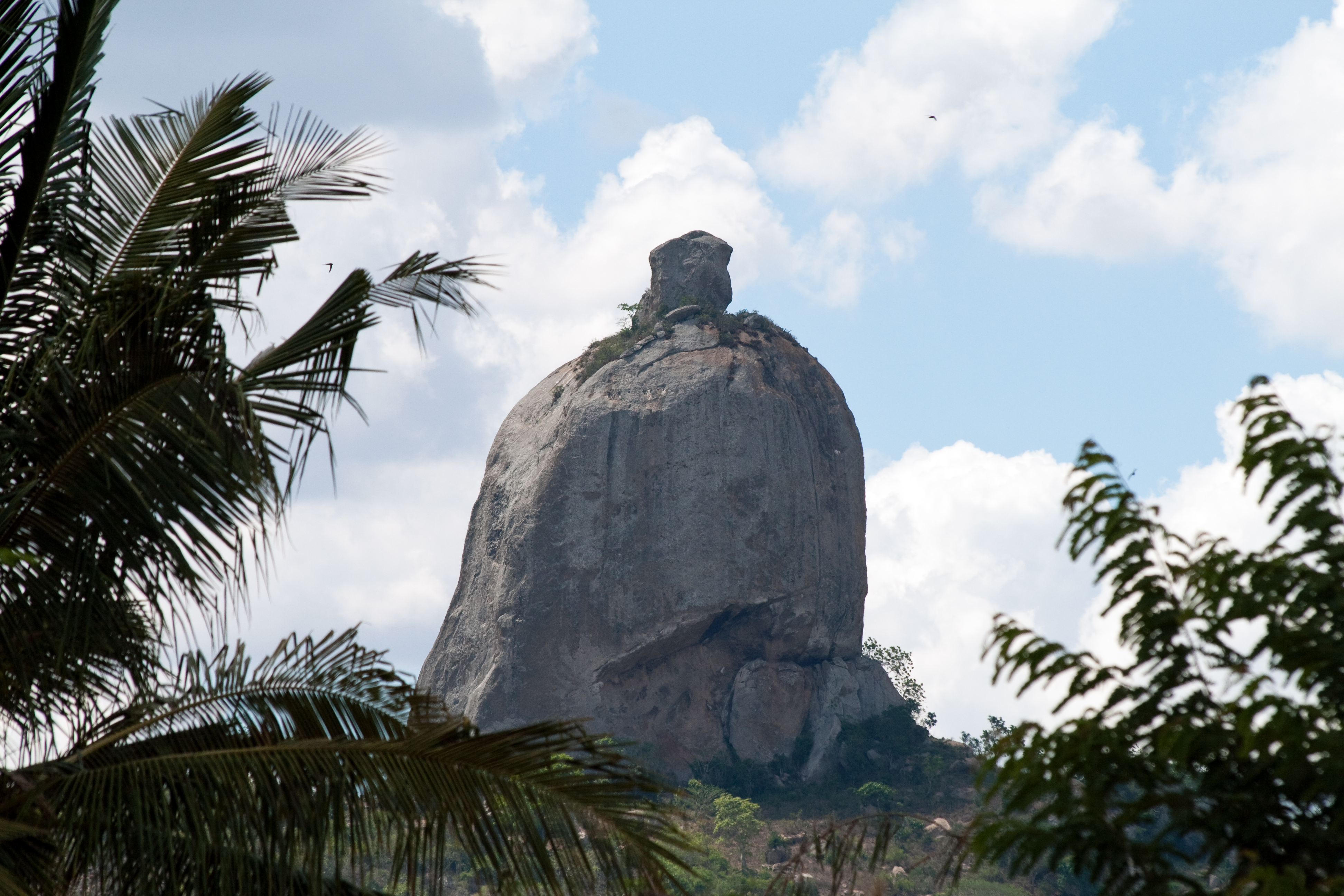 I wonder what this "inselberg" is called? I have a few ideas for a name, but...